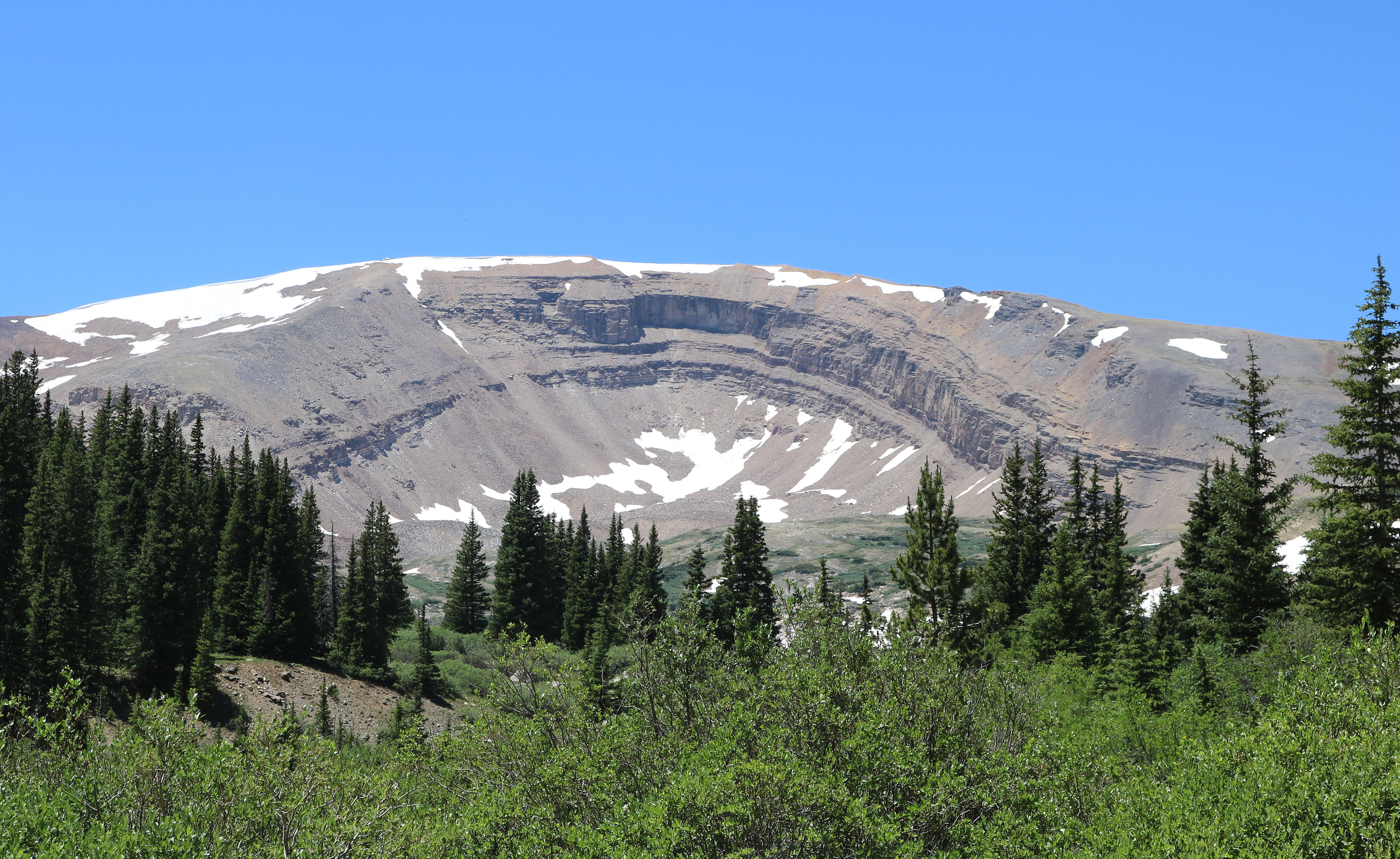 Horseshoe Mountain in Park and Lake counties in Colorado. The mountain is also in the Pike National Forest and the San Isabel National Forest. The mountain has a prominent cirque.